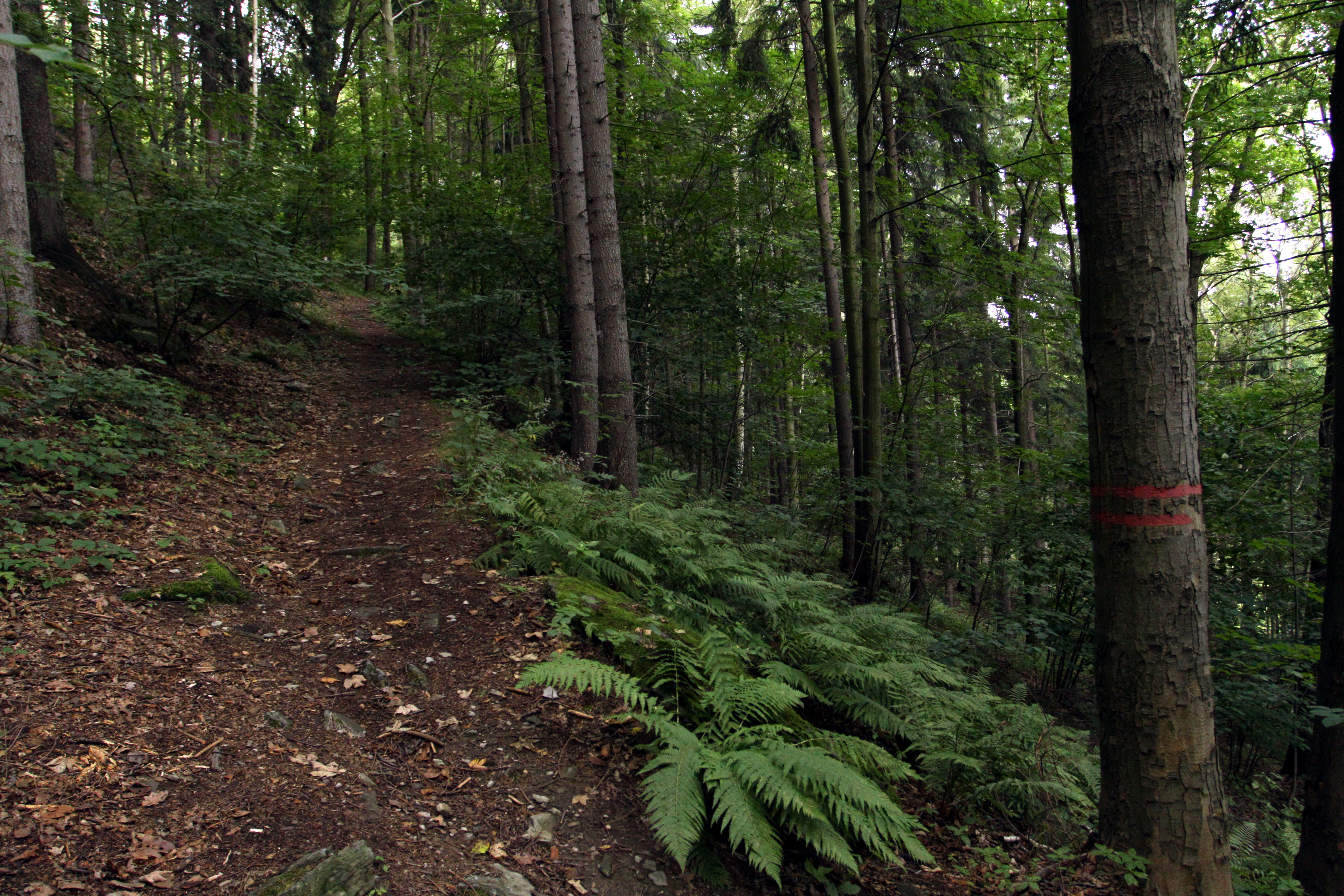 Natural monument Jílovské tisy close to Jílové village in Děčín District, Czech Republic